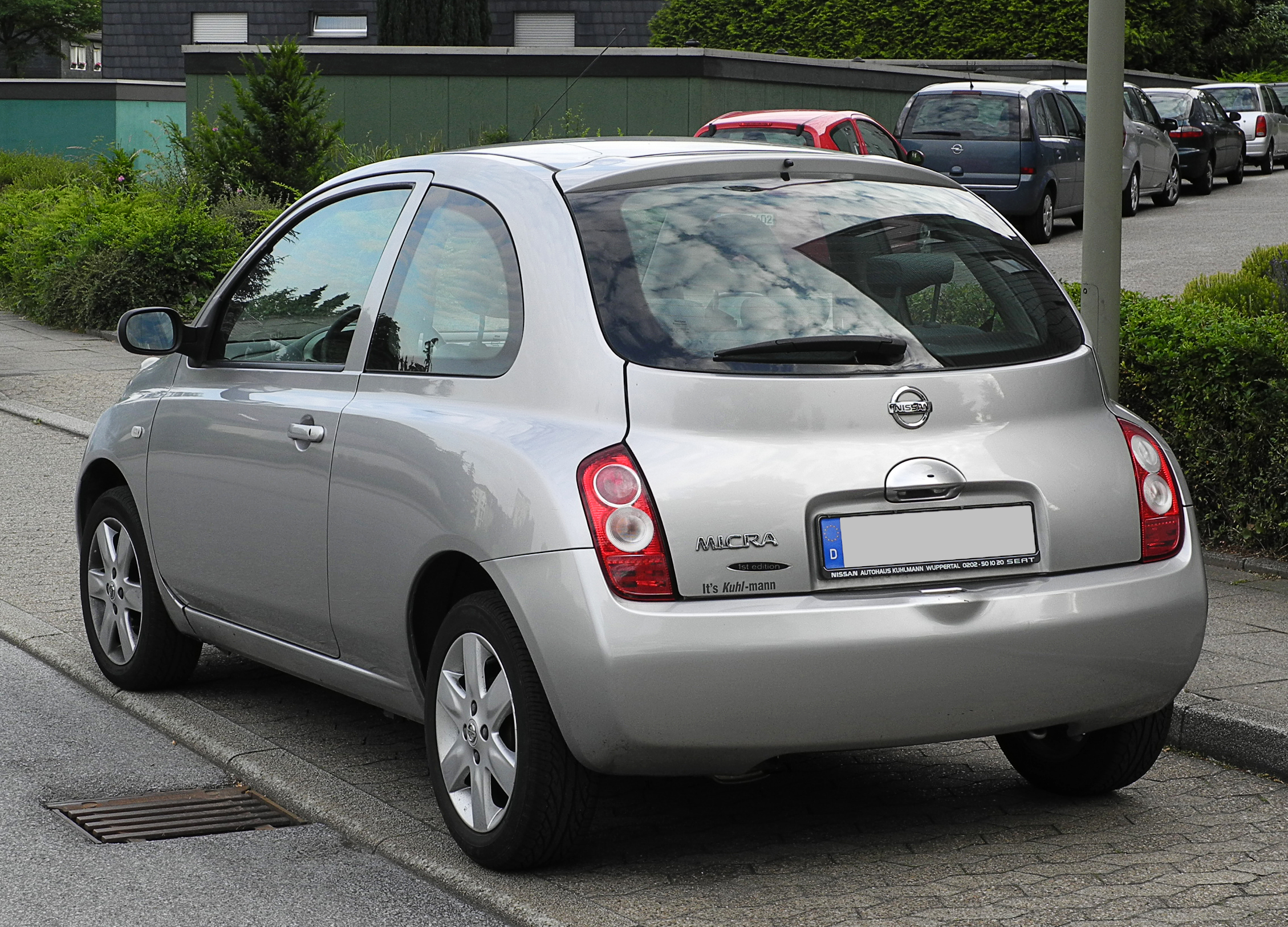 Nissan Micra 1st edition (K12)